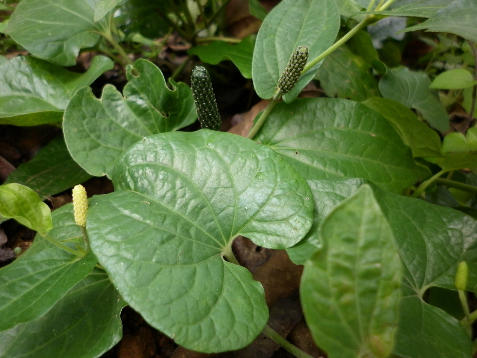 This is one of the ingredient of Thirigadugam.